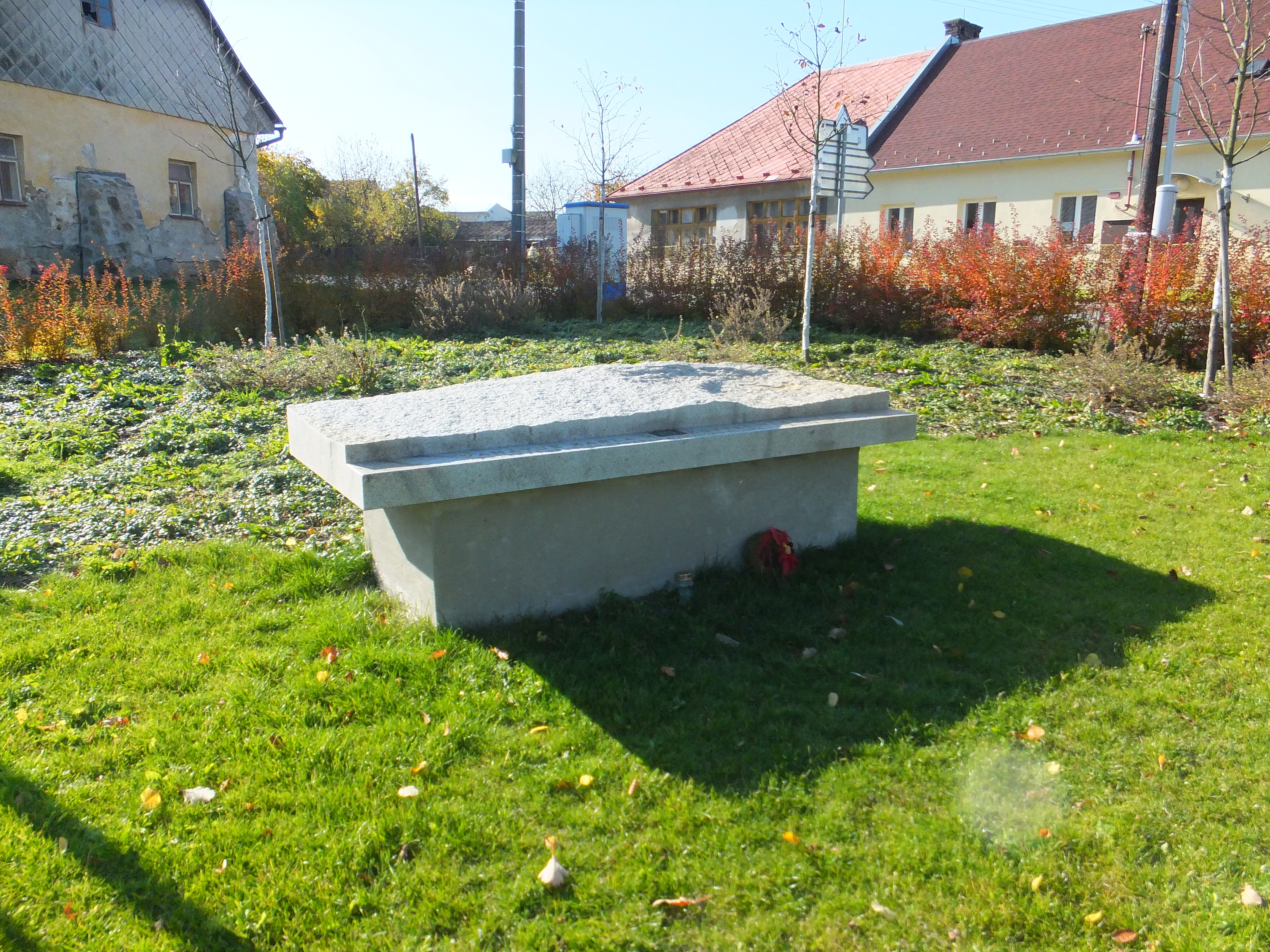 Svatý Kříž (Havlíčkův Brod) - the memorial of Karel Miloslav Kuttelwascher (the Czechoslovak fighter pilot) - the general view